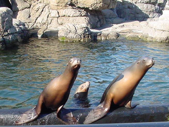 California Sea Lions waiting for feeding at the Prospect Park Zoo